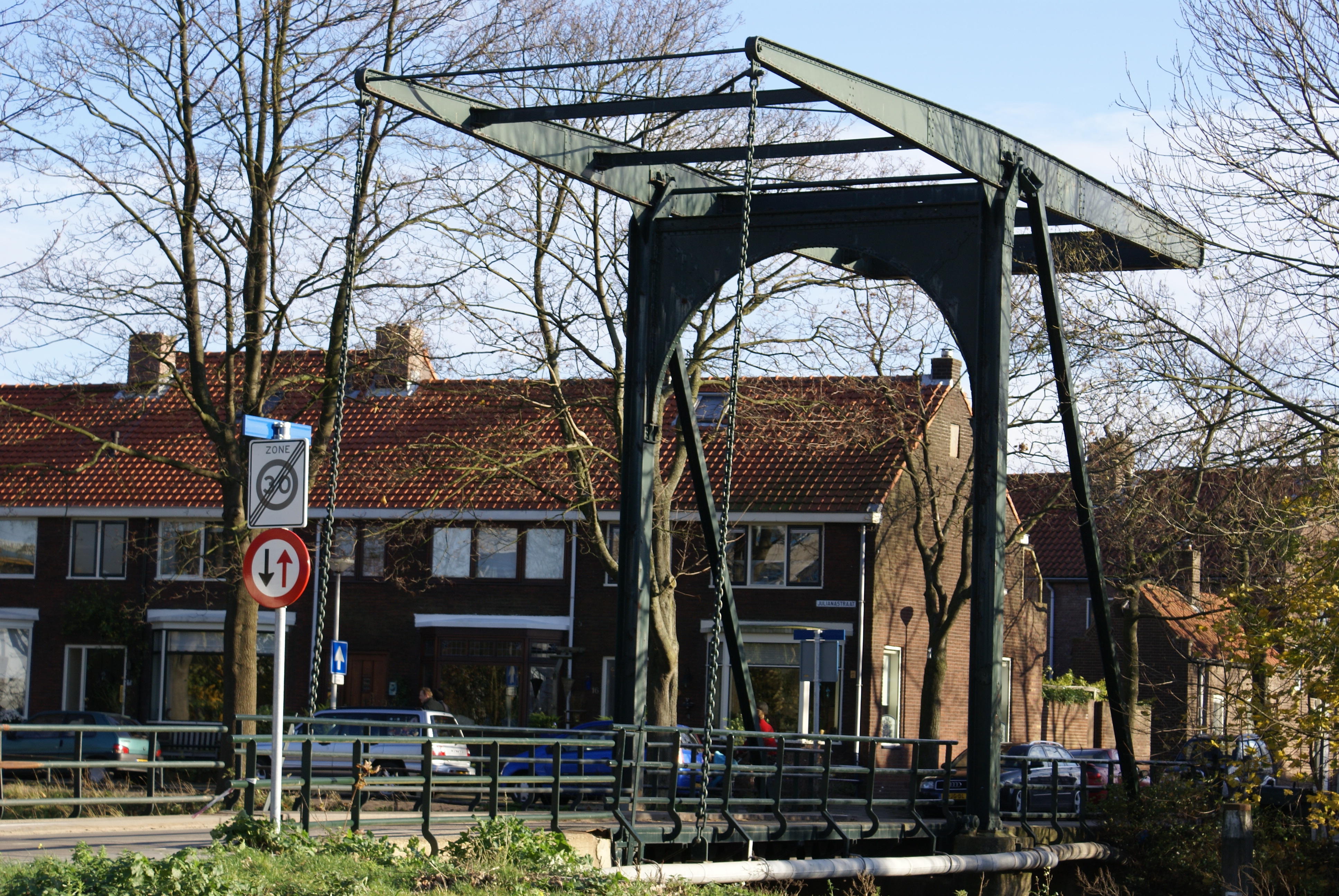 Former Slobbengors Bridge, Papendrecht, Drawbridge